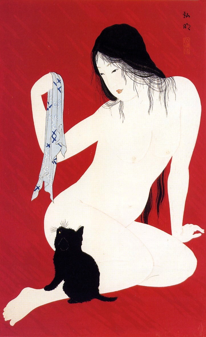 Takahashi Hiroshi: Playing with a cat, 1930.